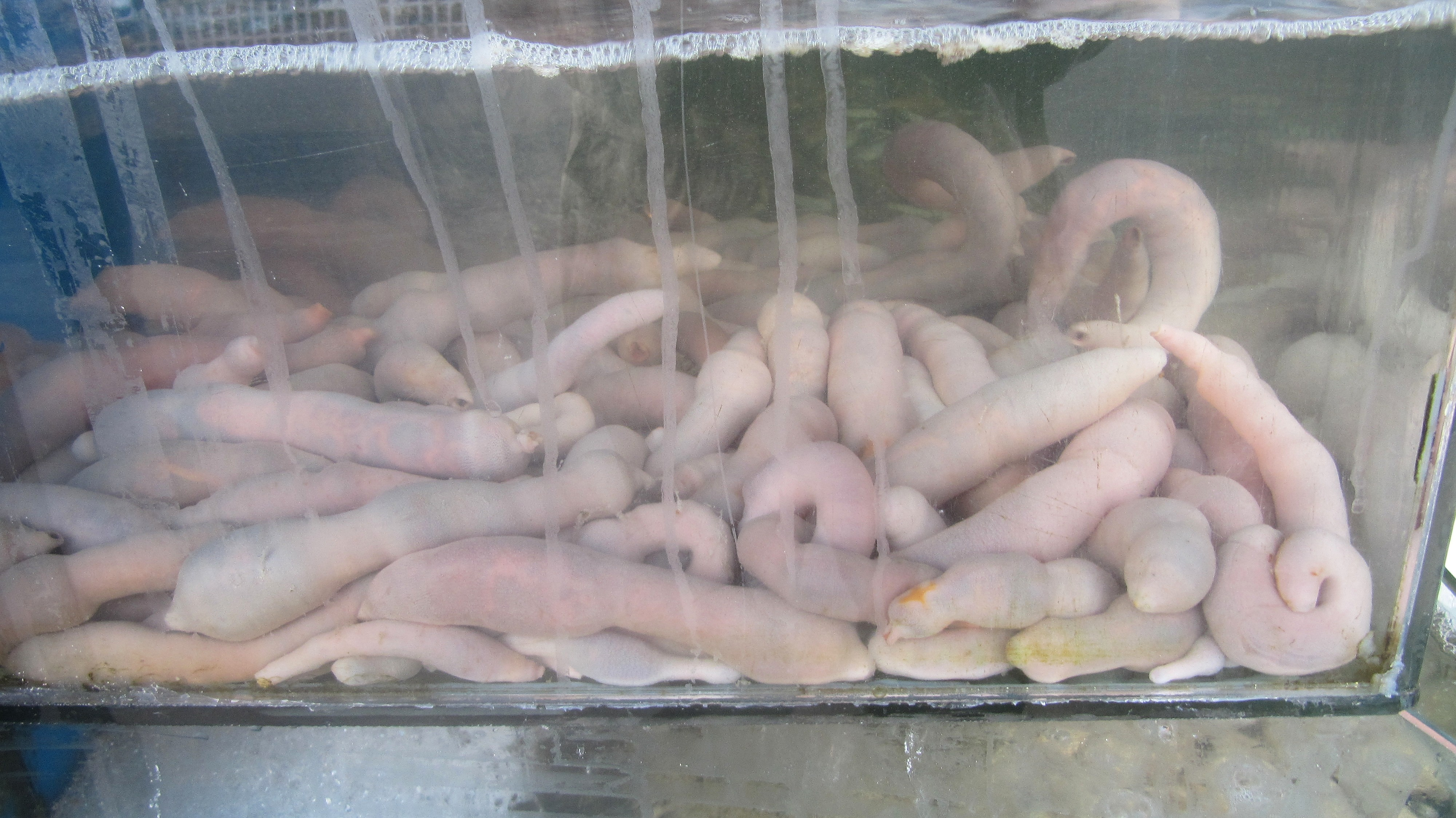 Urechis unicinctus in Weihai, Shandong province, China